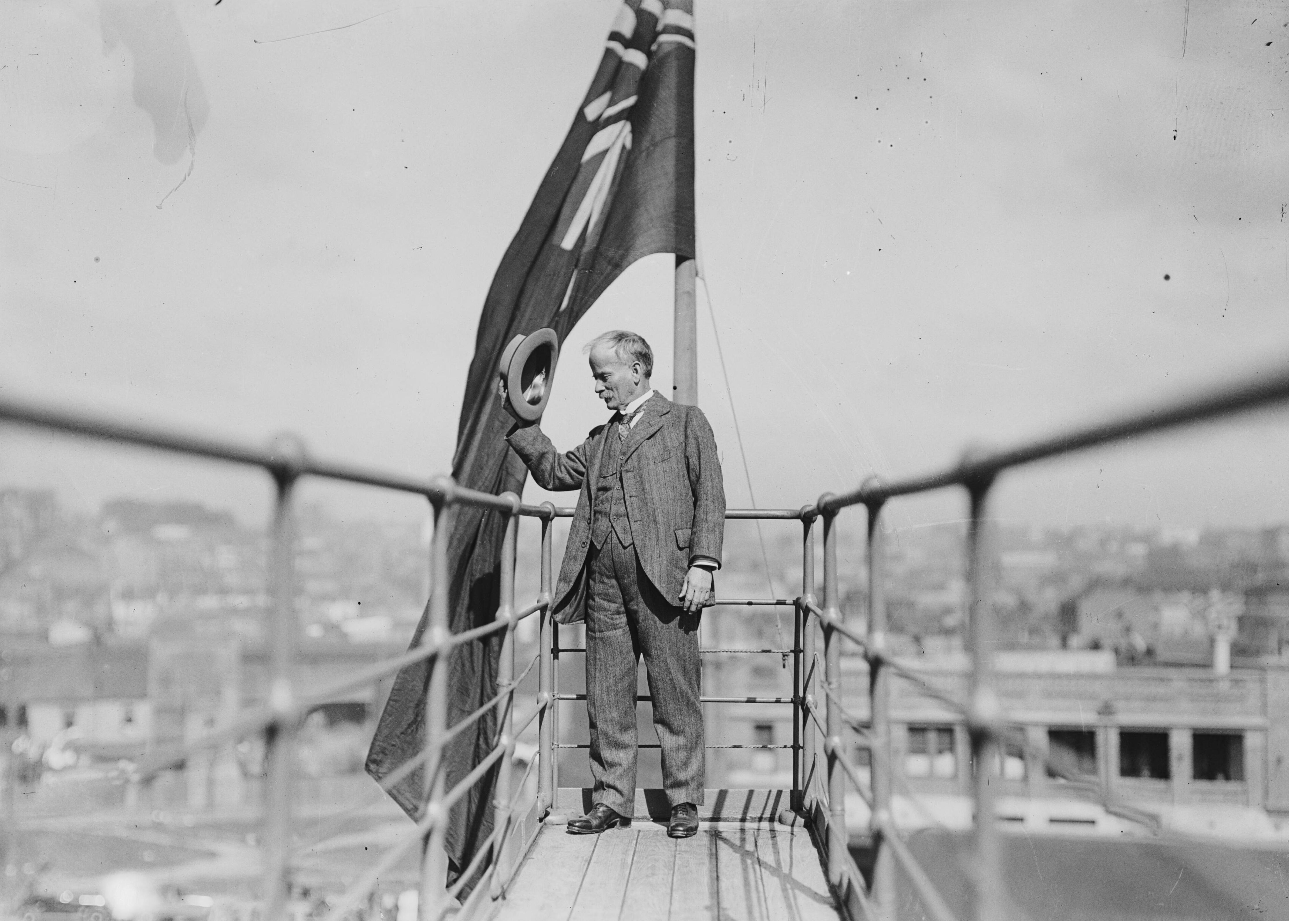 Australian engineer John Bradfield, tipping his hat from a walkway on the newly constructed Sydney Harbour Bridge